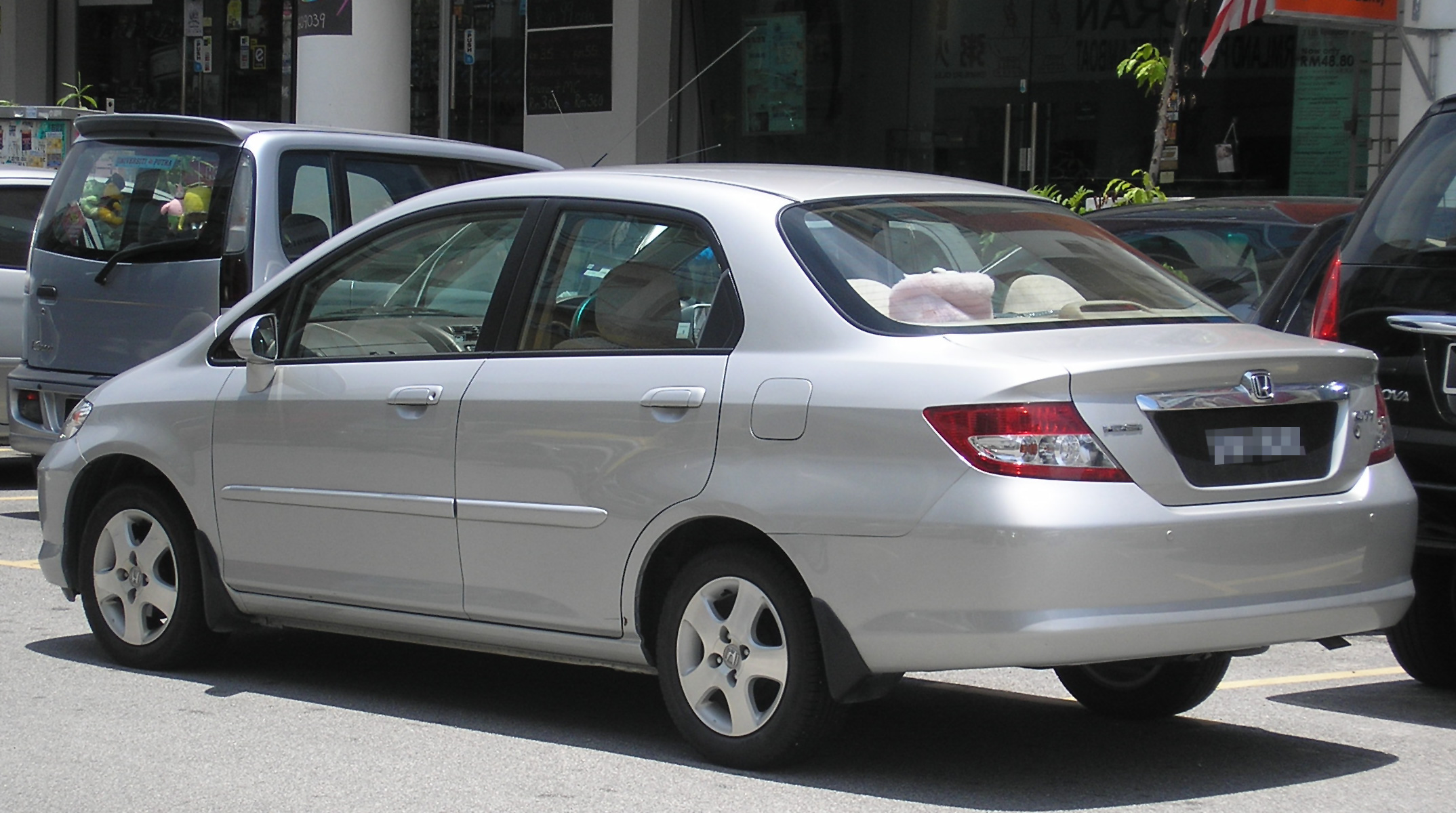 Rear-side shot of a fourth generation Honda City, in Serdang, Selangor, Malaysia.